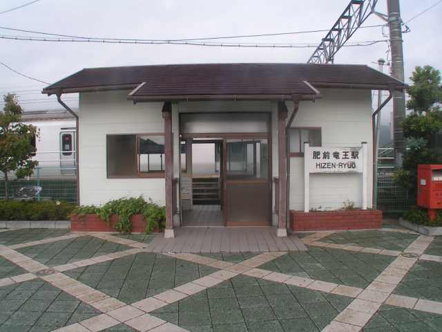 Picture of Hizen-Ryuuou Station.